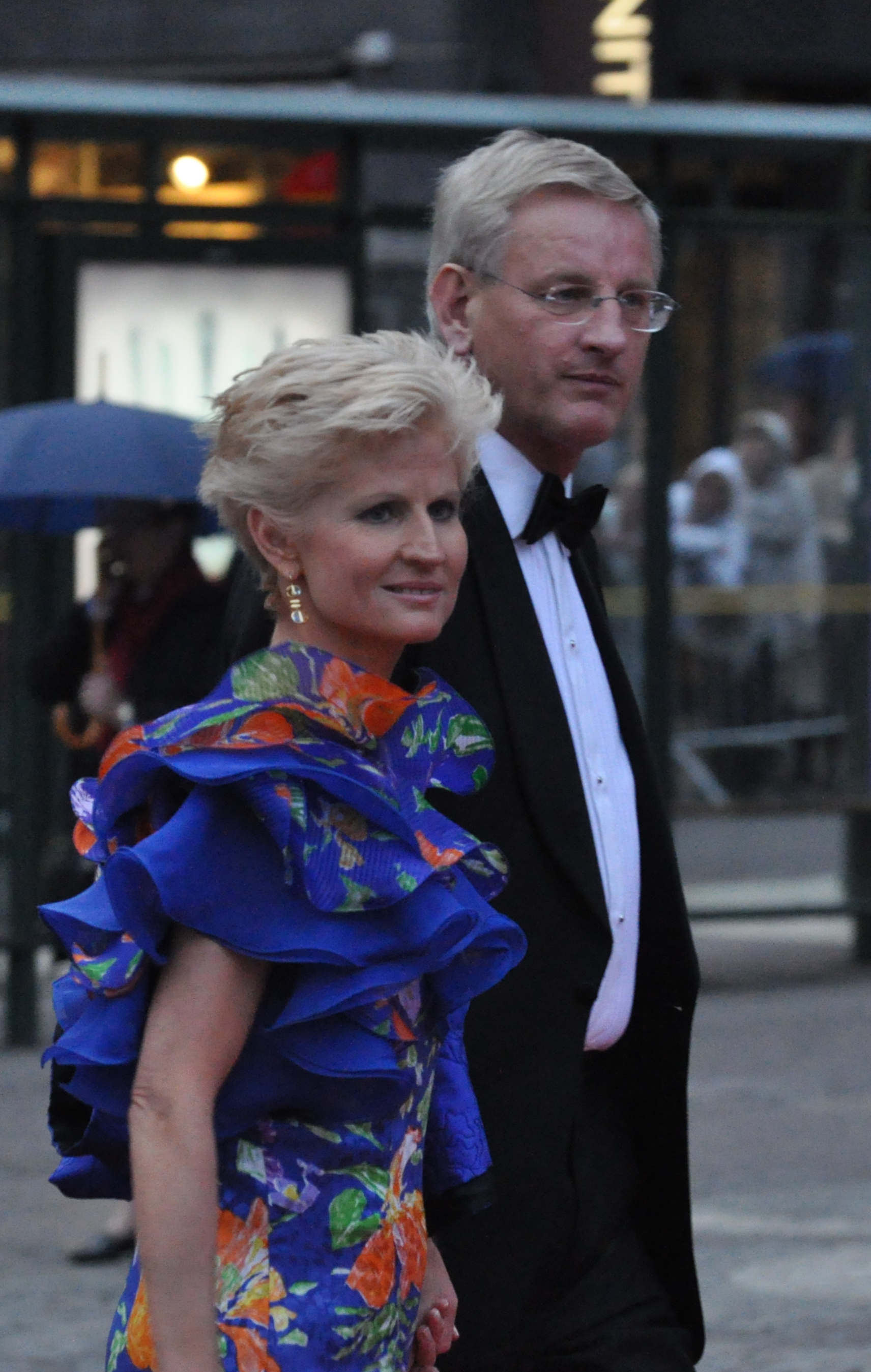 Wedding of Victoria, Crown Princess of Sweden, and Daniel Westling; Arrival of members for the Gouvernment and Swedish and foreign guests of hounour to the Riksdag's Gala Performance at Konserthuset